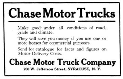 Chase Motor Truck Company - Advertisement